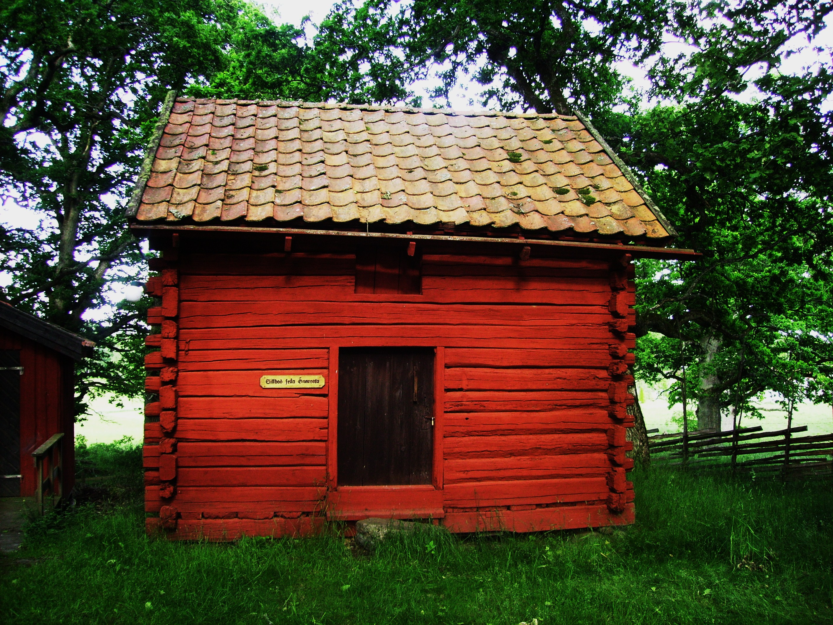 Picture of Björnlunda hembygdsgård, Södermanland